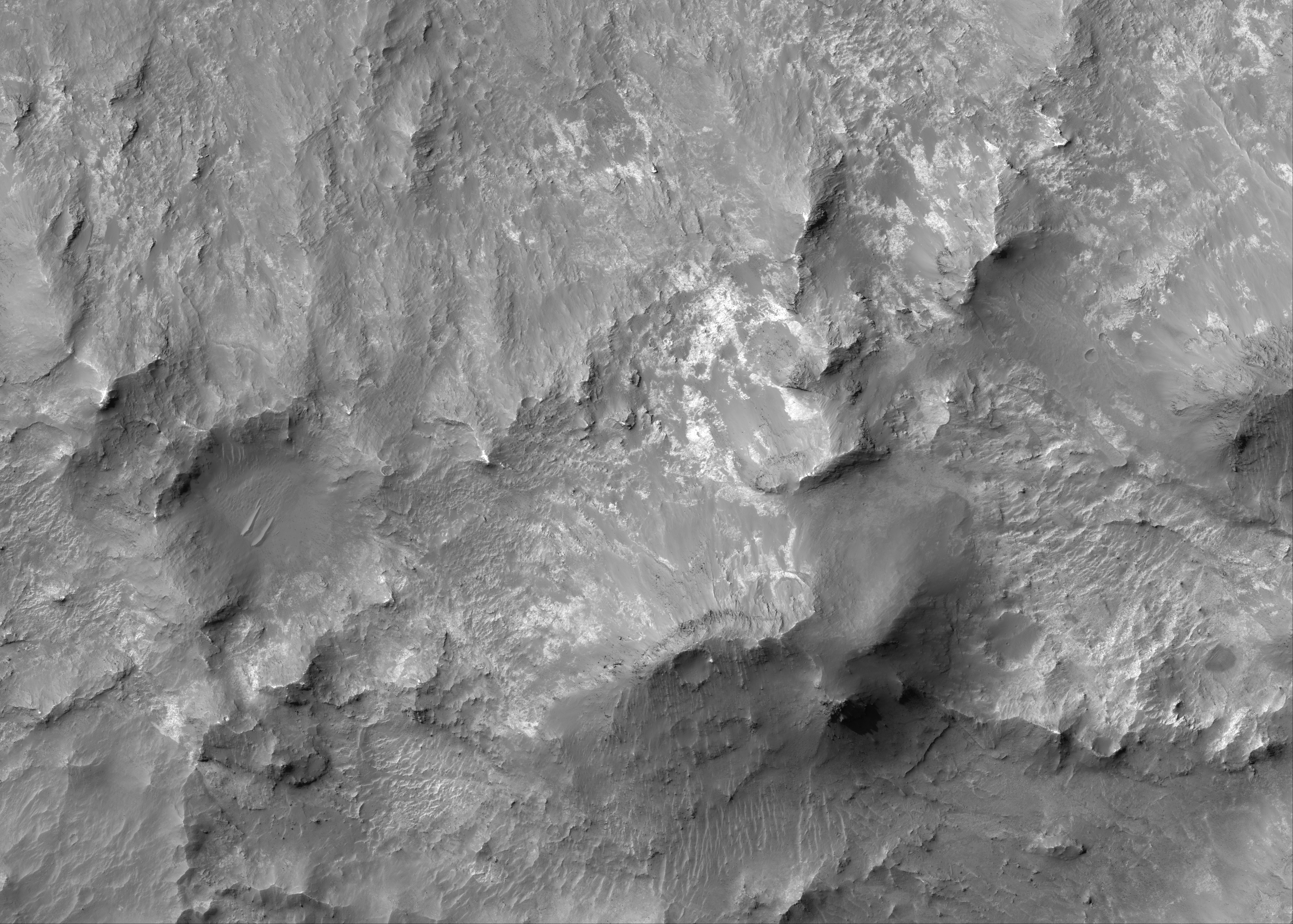 Portion of the central pit of a crater on Thaumasia Planum on Mars. Photograph taken by the Mars Reconnaissance Orbiter.